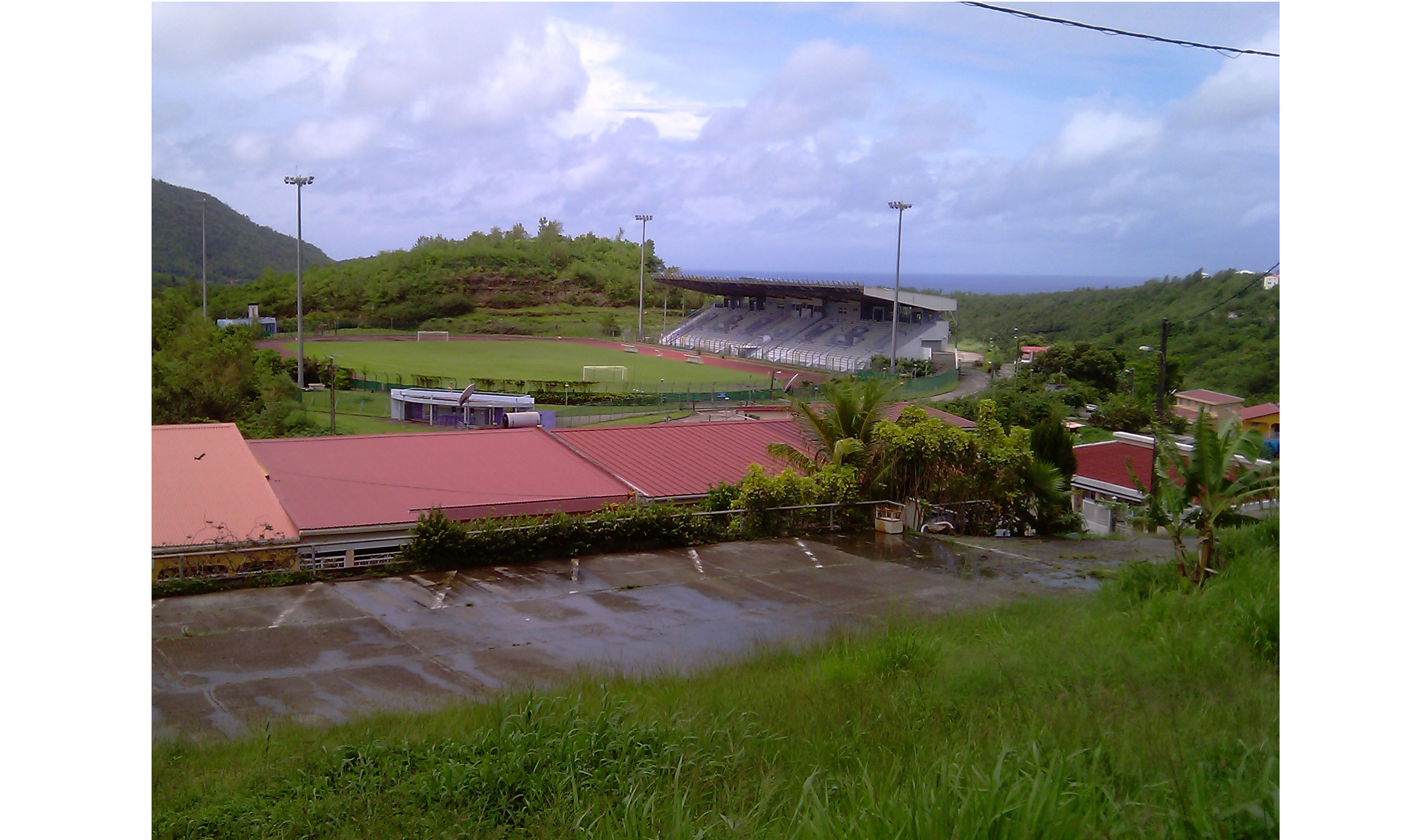 Template:The